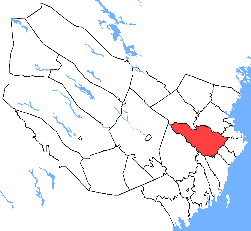 Burträsk municipality of Västerbotten County 1952.